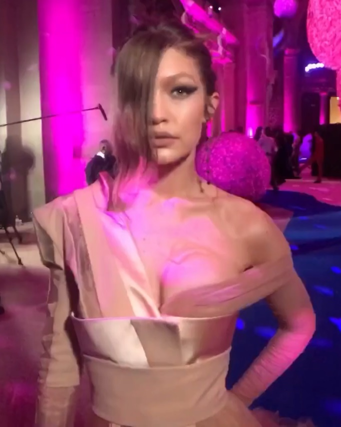 Gigi Hadid at Met Gala 2017